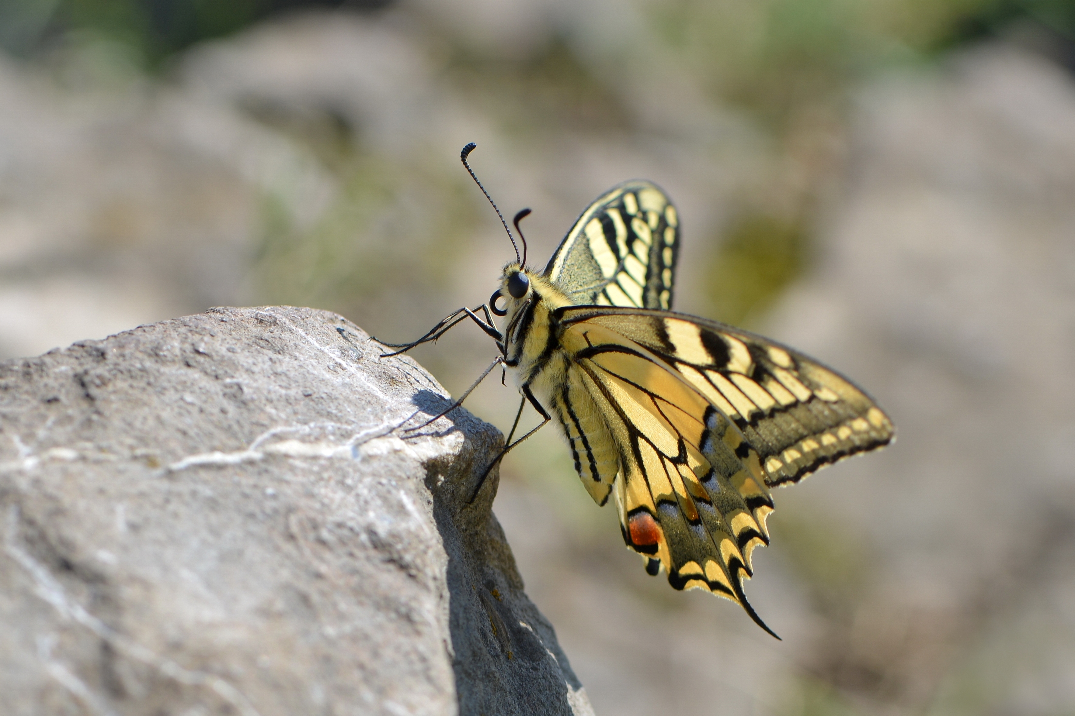 The Old World Swallowtail (Papilio machaon) is a butterfly of the family Papilionidae.